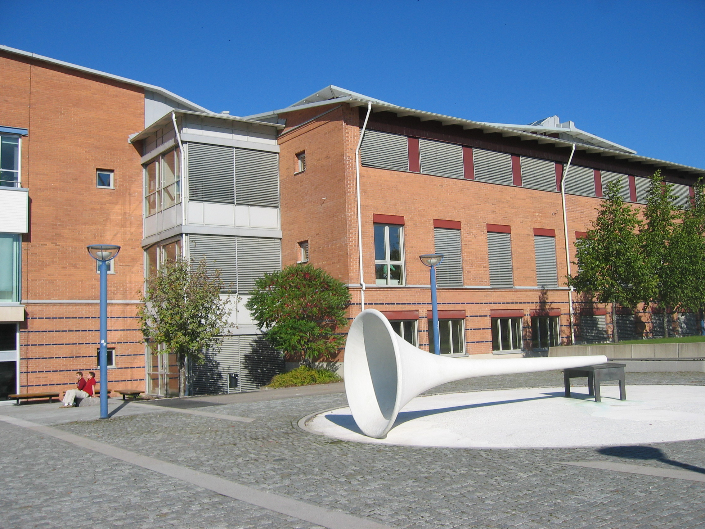 Sculpture "Princip" (1998) by Anna Tegeström Wolgers at Växjö University.